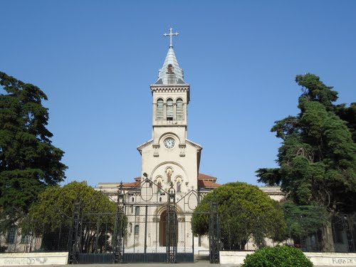 Iglesia de Padua, Merlo, Provincia de Buenos Aires.